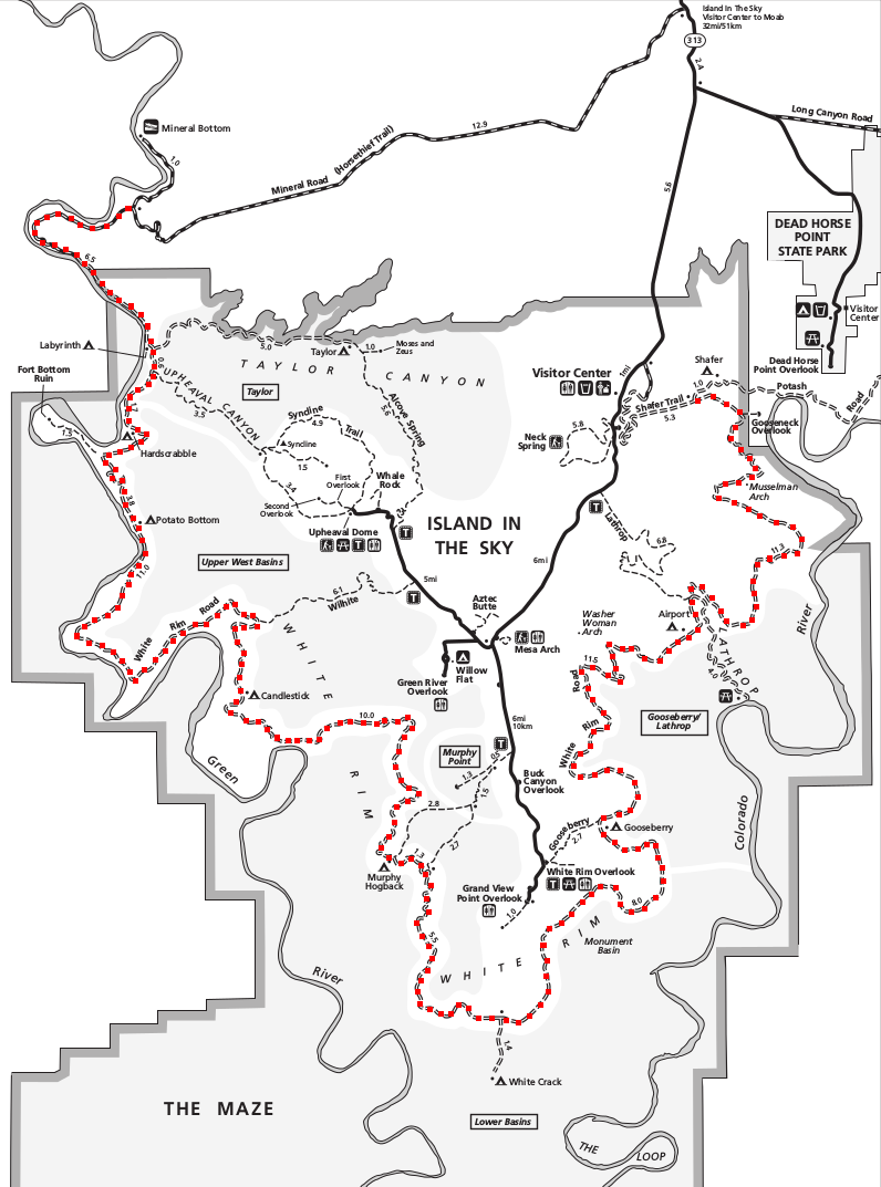 Map of Canyonlands National Park with White Rim Road marked with a red dotted line